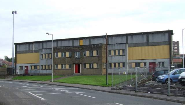 Ravenscraig Stadium. The street side of the grandstand on Auchmead Road. The Stadium is home to Greenock Juniors FC and also their local rivals Port Glasgow Juniors FC. See the field side of the building here 996781.